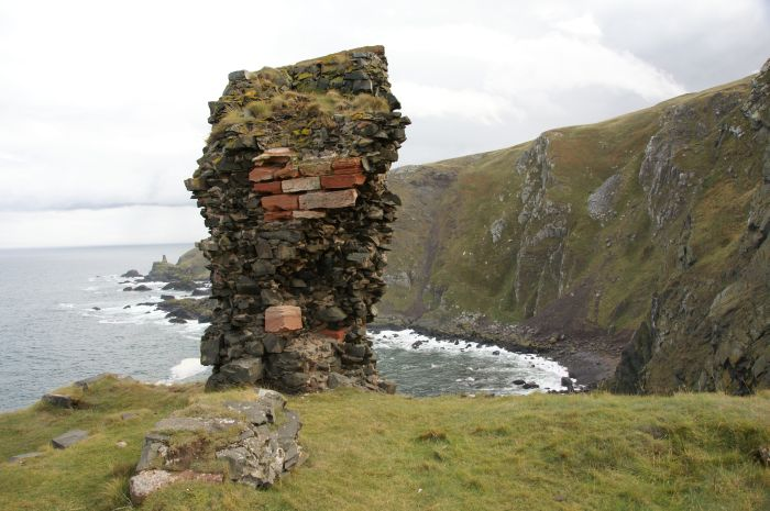 Fast castle, Scotland